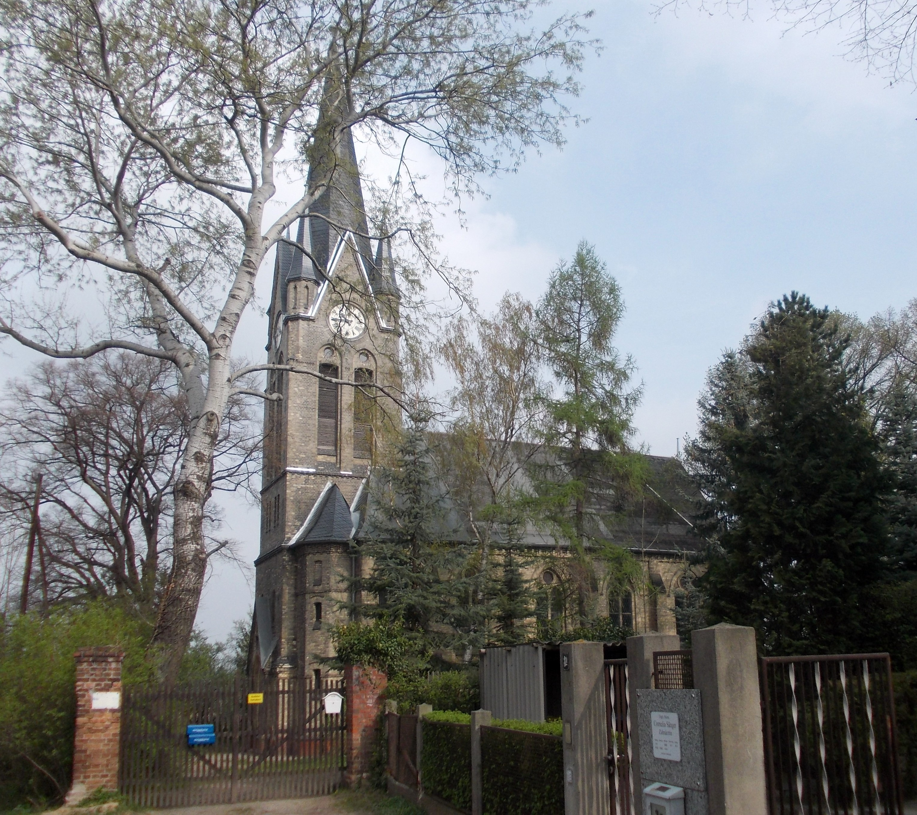 Granschütz church (Hohenmölsen, district: Burgenlandkreis, Saxony-Anhalt)